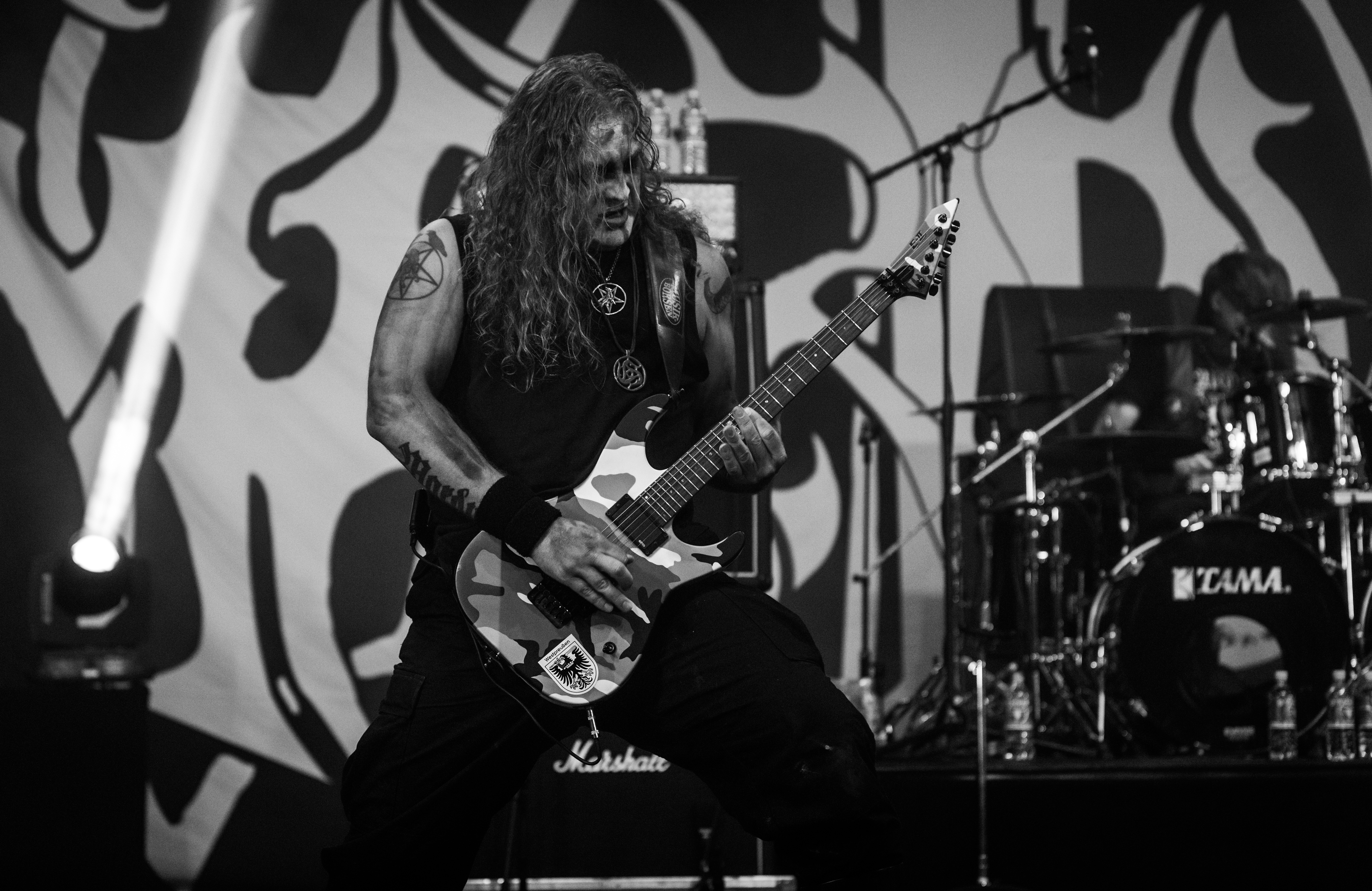 Marduk - Wacken Open Air 2016